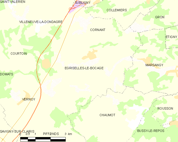 Map of French municipality Égriselles-le-Bocage